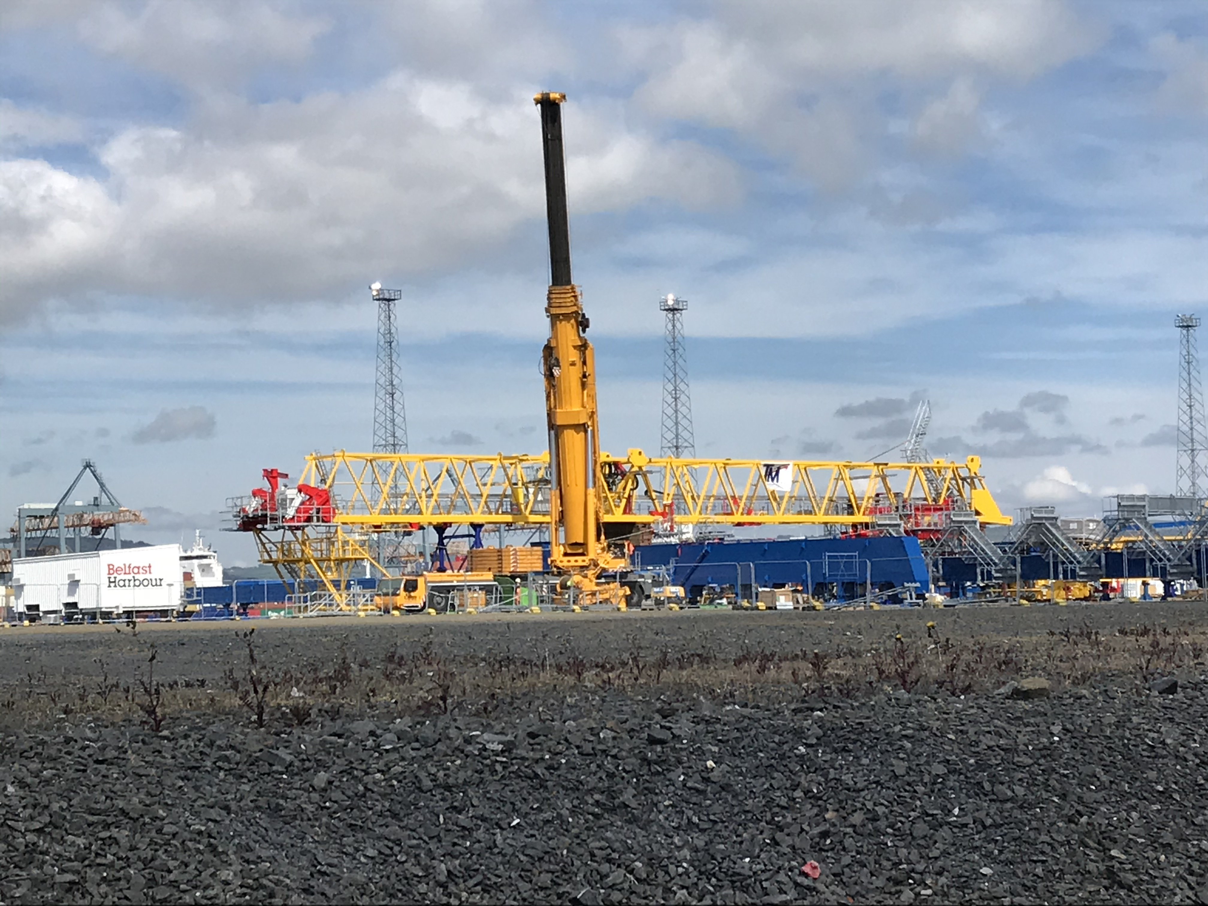 The first of Belfast port's new Liebherr gantry container handling cranes under assembly, once both new cranes are assembled they will transfer by barge across the channel to VT3.